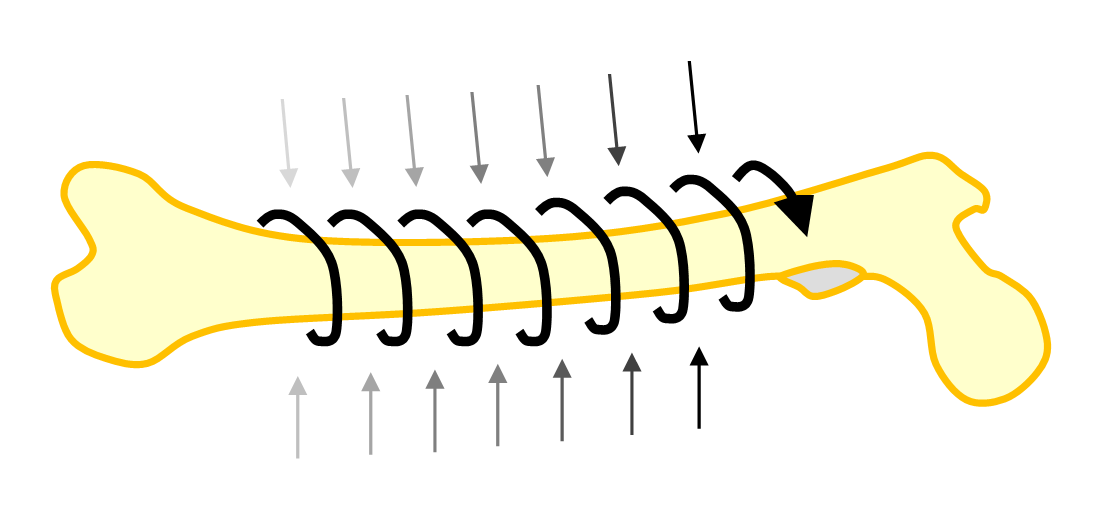 Bone Marrow Washing example. The spiral Qi flow is caused by pressing of Qi toward the bone.